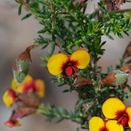 Dillwynia phylicoides foliage and flowers